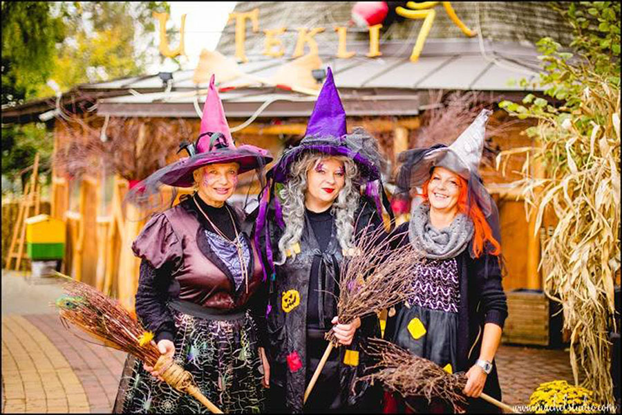 Wioska Czarownic – nietypowa atrakcja nie tylko dla najmłodszych